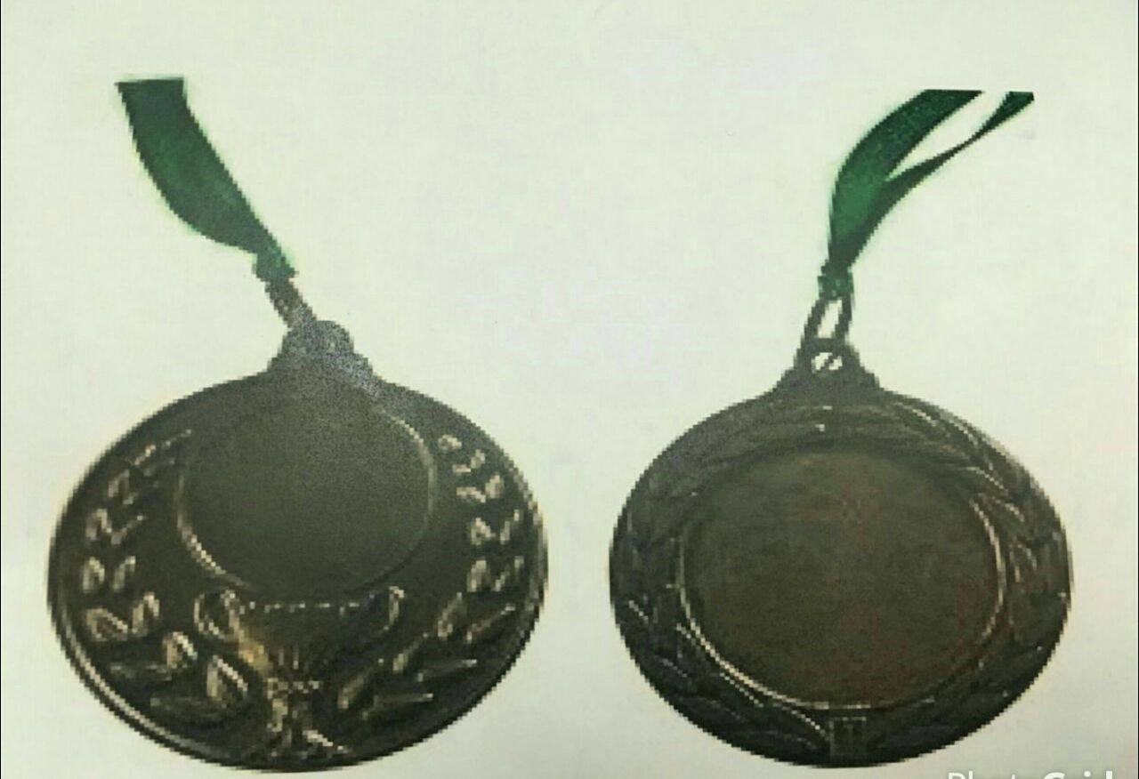 ಕಂಚಿನ ಪದಕ